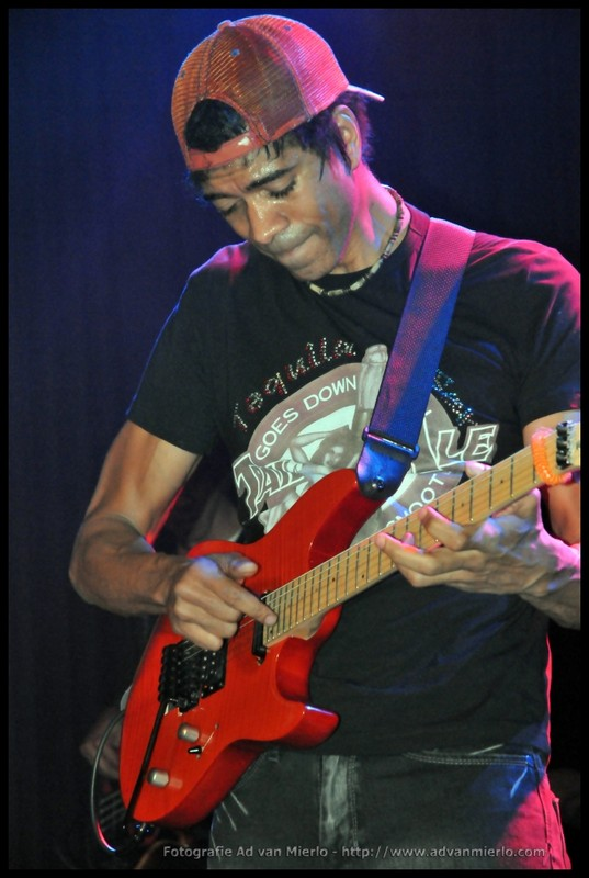 Greg Howe Live in Weert